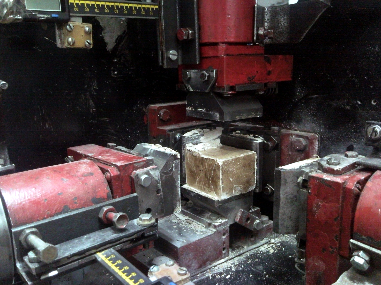 Cube of non explosive expansion mixture in the triaxial press test chamber